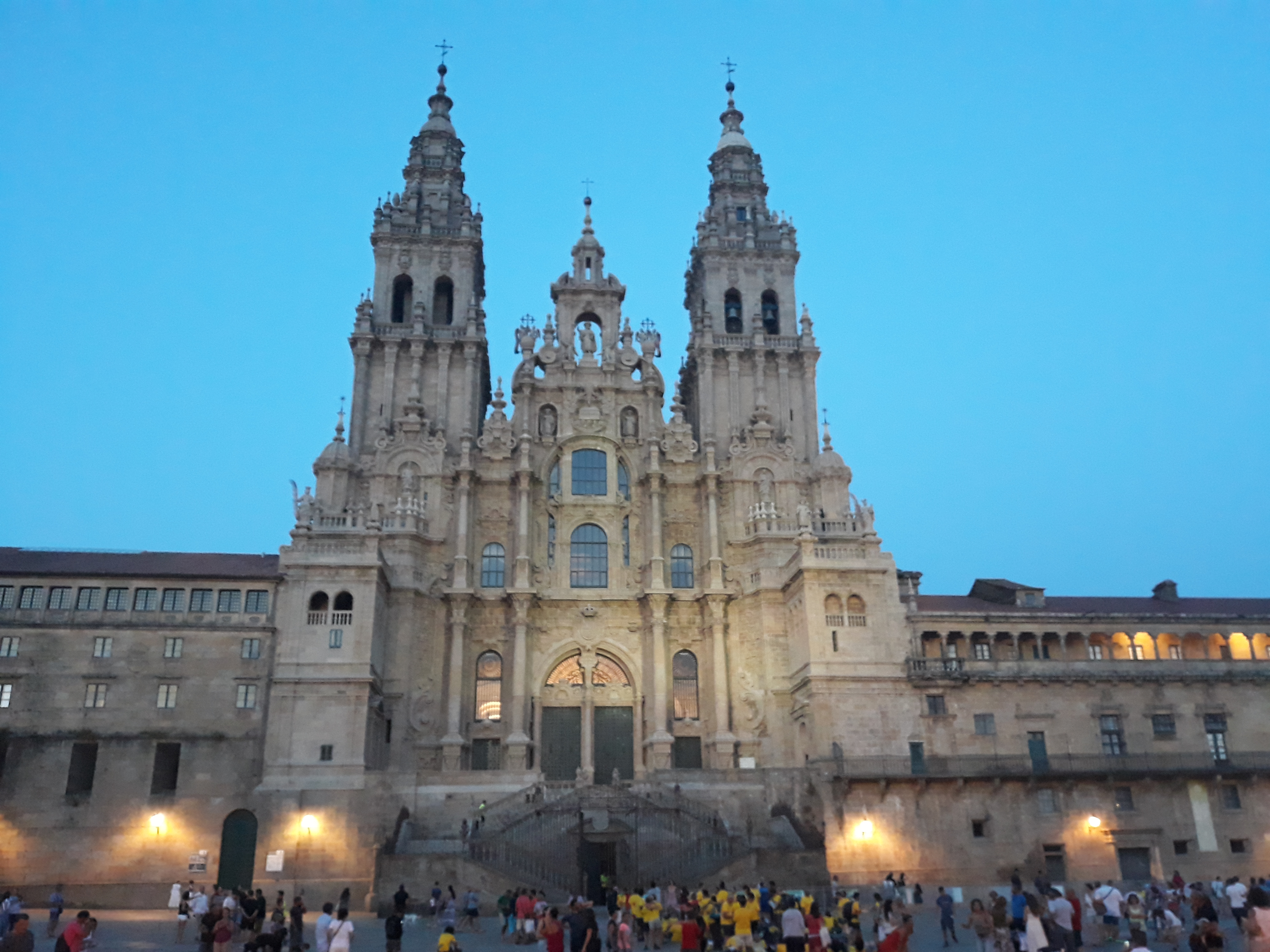 Cathedral of Santiago de Compostela, Galicia, Spain.